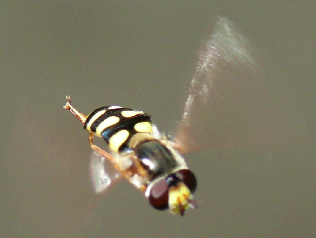 Syrphidae, probably Eupeodes corollae Hamburg, Germany